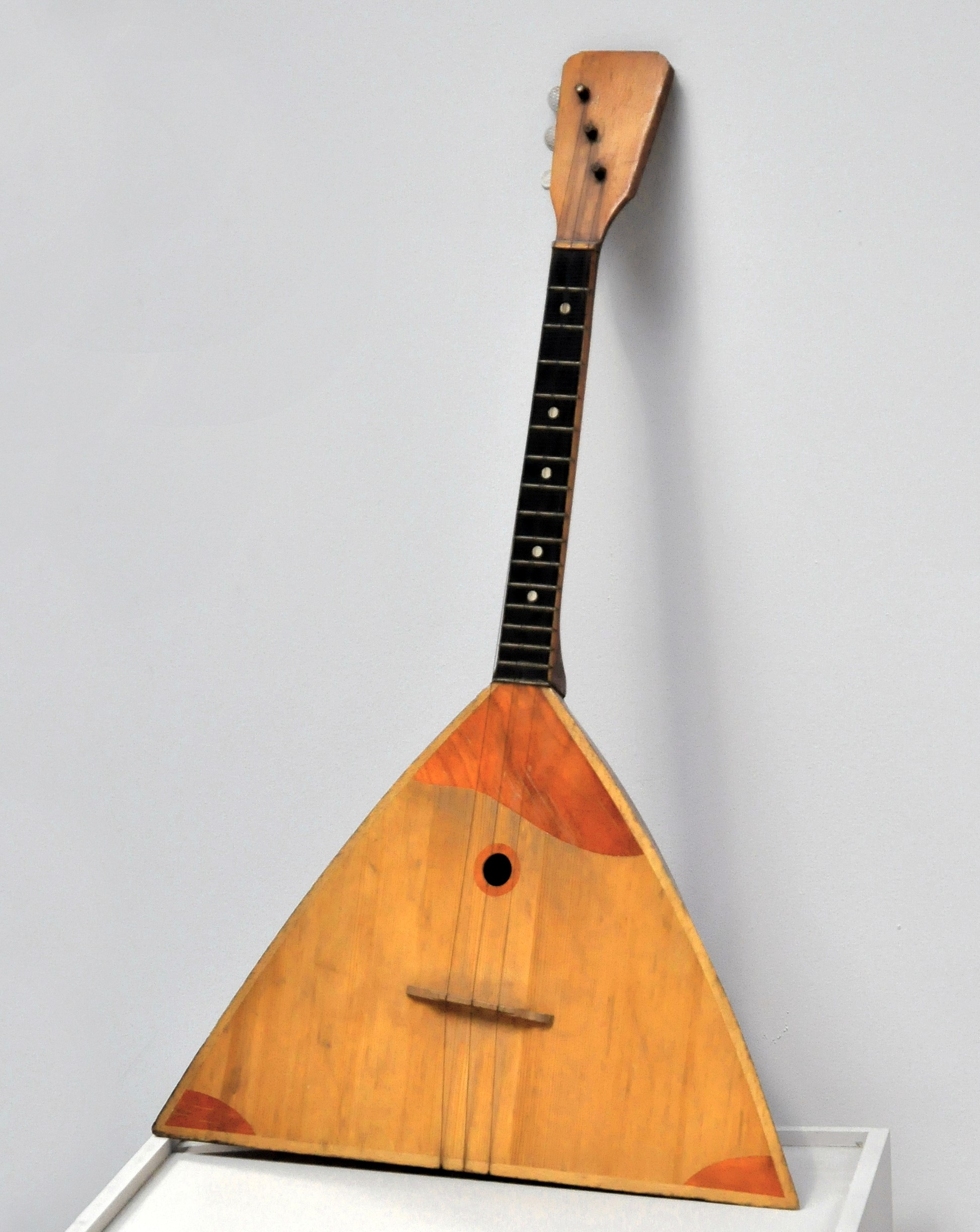 Balalaika from the second half of 20th century. Now it is located in Museum of Science and Technology in Belgrade.